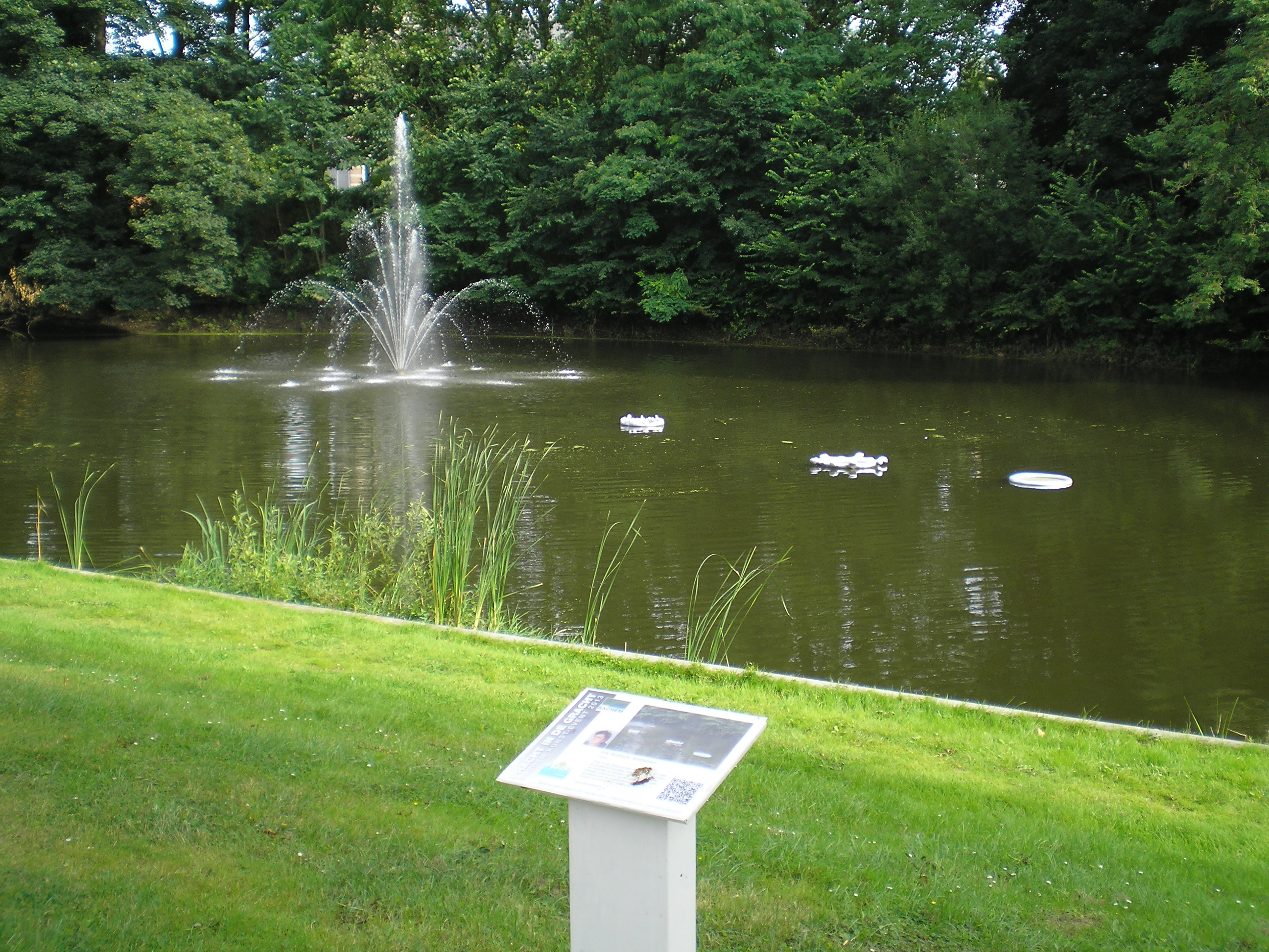 De Virieusingel with "Pracht in de Gracht" in Zaltbommel in the Netherlands